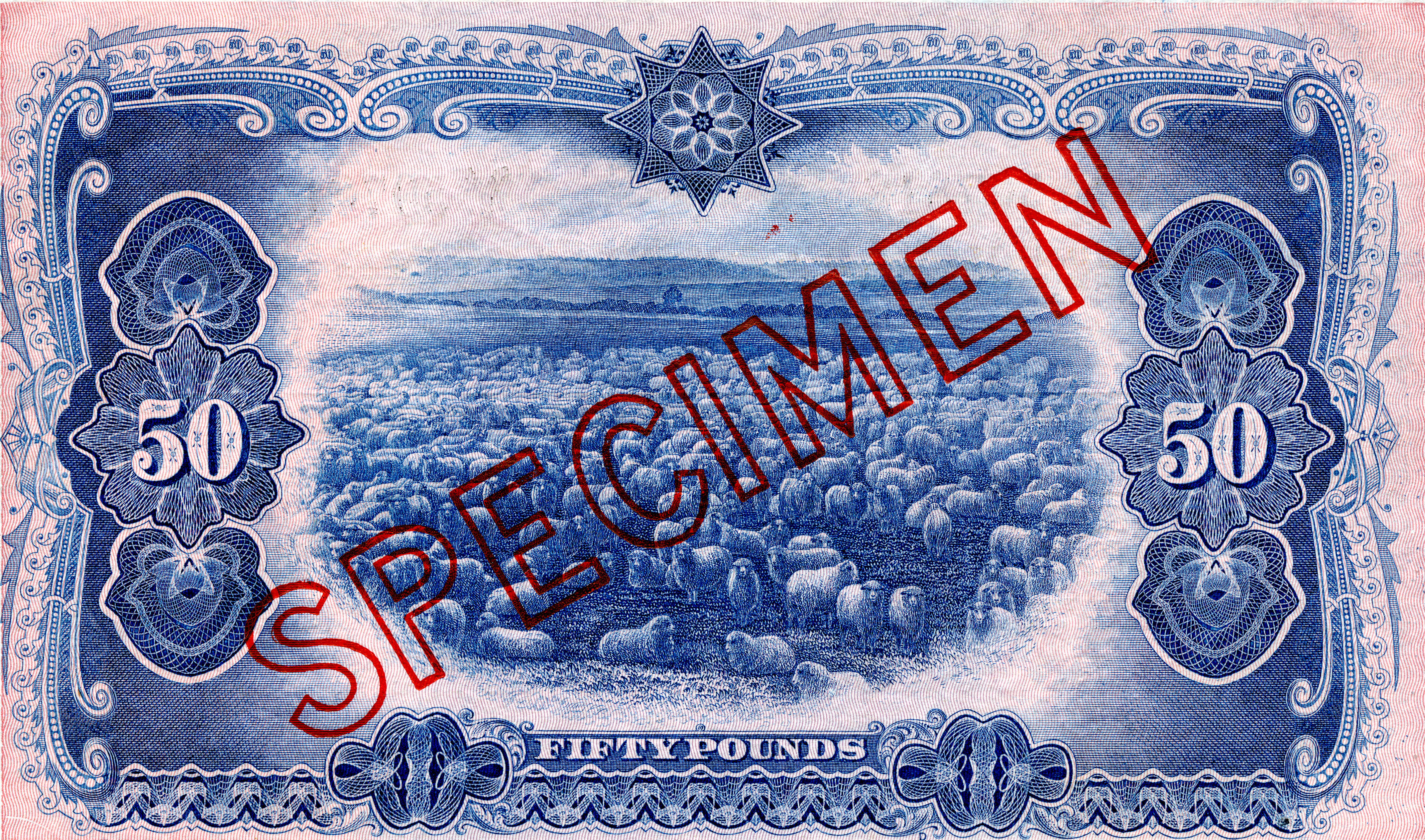 Commonwealth of Australia fifty-pound specimen note (1918, reverse)